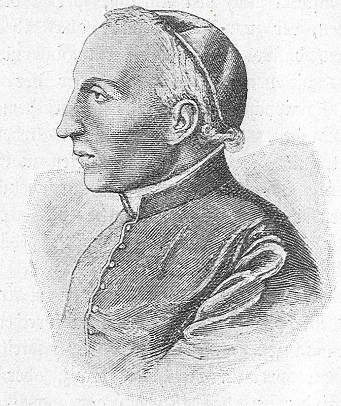 Picture of Joseph Ernst